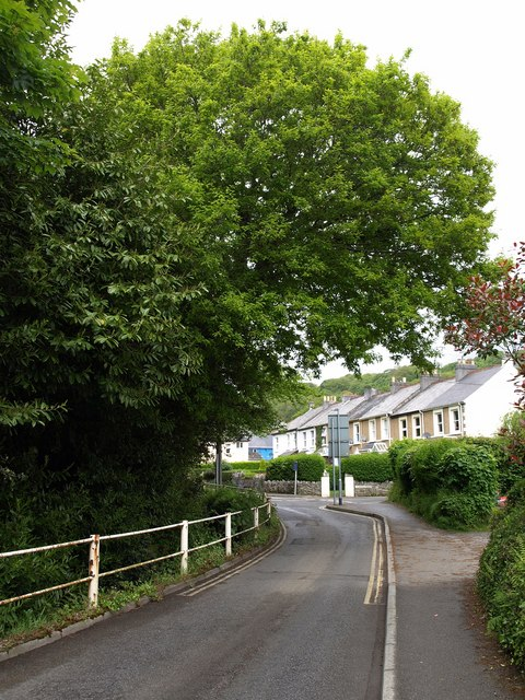 Gover Road, St Austell. Another view along 431979, looking up the valley of the Gover Stream, which runs beside the road.